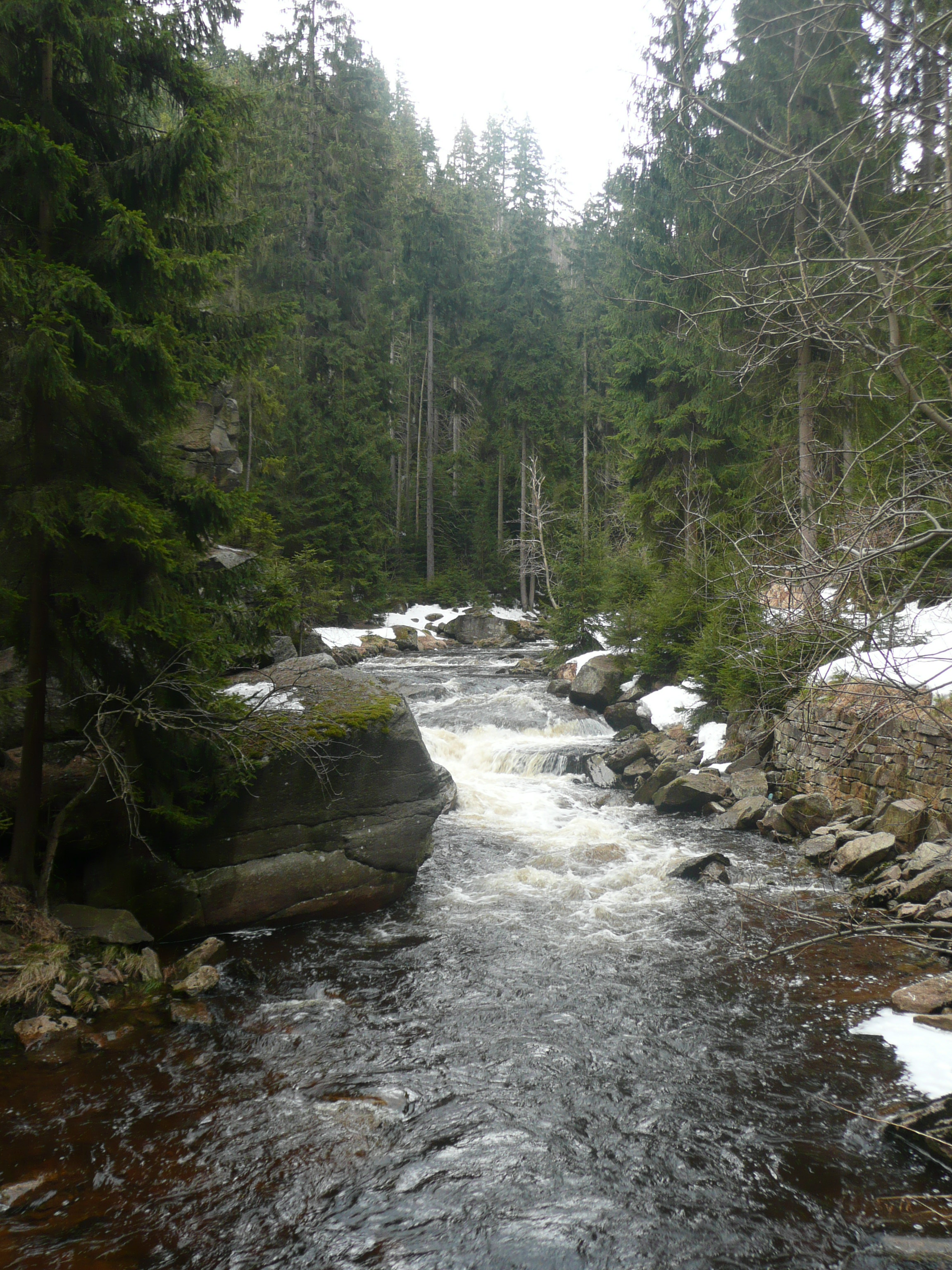 The Black Pockau river in the Schwarzwasser valley south of the Nonnenfelsen rocks